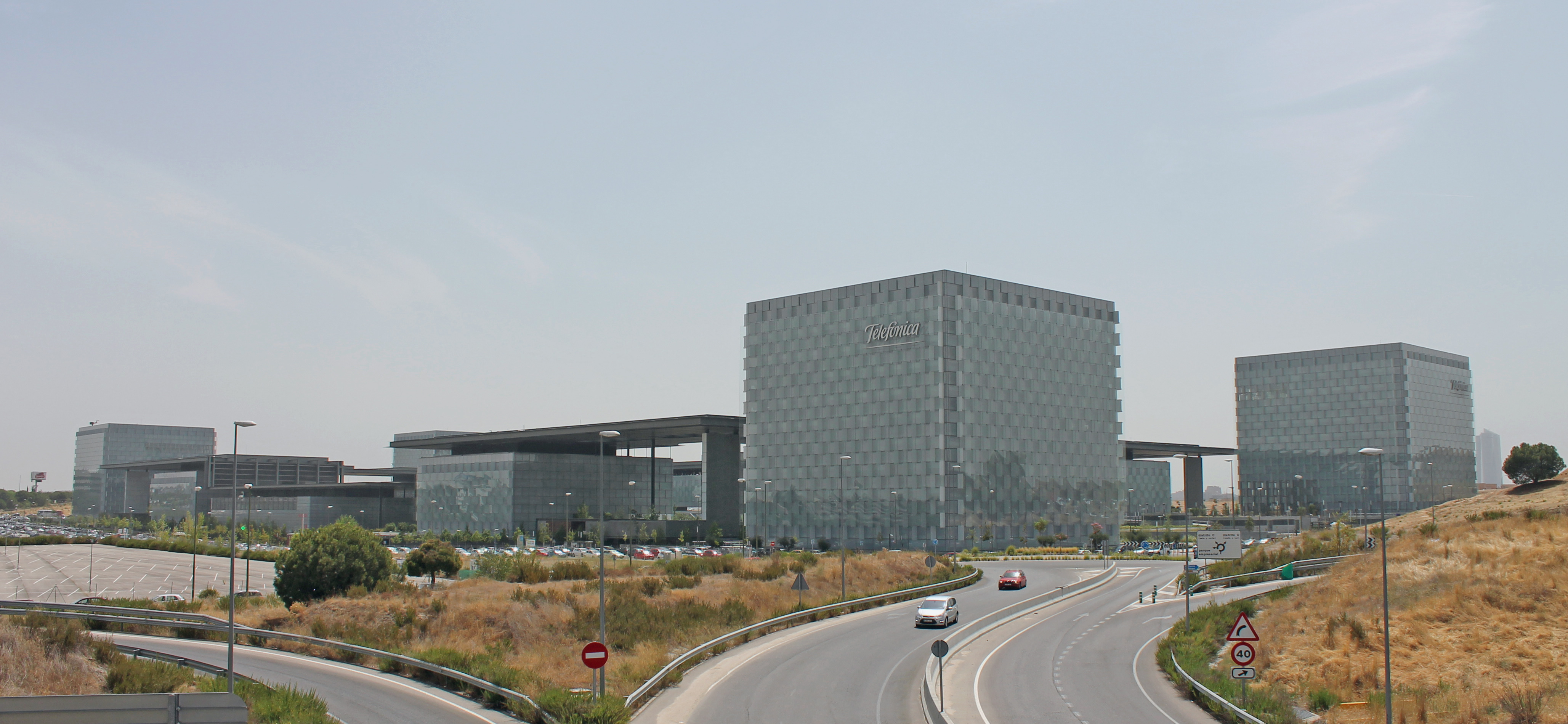 View of Distrito Telefónica in Madrid (Spain).